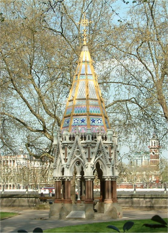 Buxton Memorial Fountain or the Buxton Memorial Drinking Fountain. A monument celebrating the Emancipation of Slaves in the British empire, 1834, erected in Victoria Tower Gardens, Millbank, Westminster, London Erected by Charles Buxtom, MP, also in memory of his father Sir T. Foxwell Buxton. Photo by & copyright Tagishsimon 24th April 2004 he:Image:Emancipation of Slaves 1834 monument - Victoria Tower Gardens - Millbank - Westminster - London - 24042004.jpg